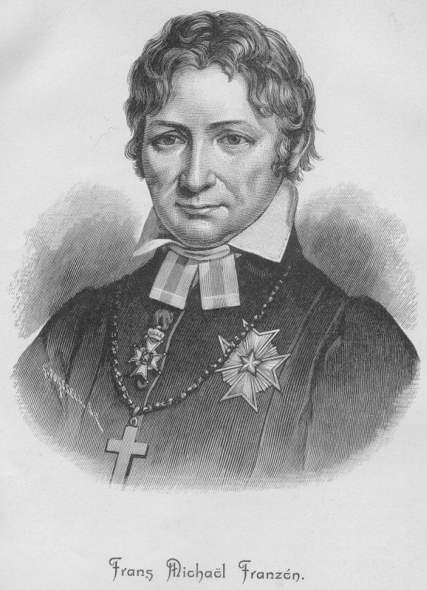 Frans Michael Franzén